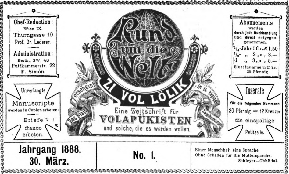 Nameplate of "Rund um die Welt/Zi vol lölik", a bimonthly published in Vienna by S. Lederer.